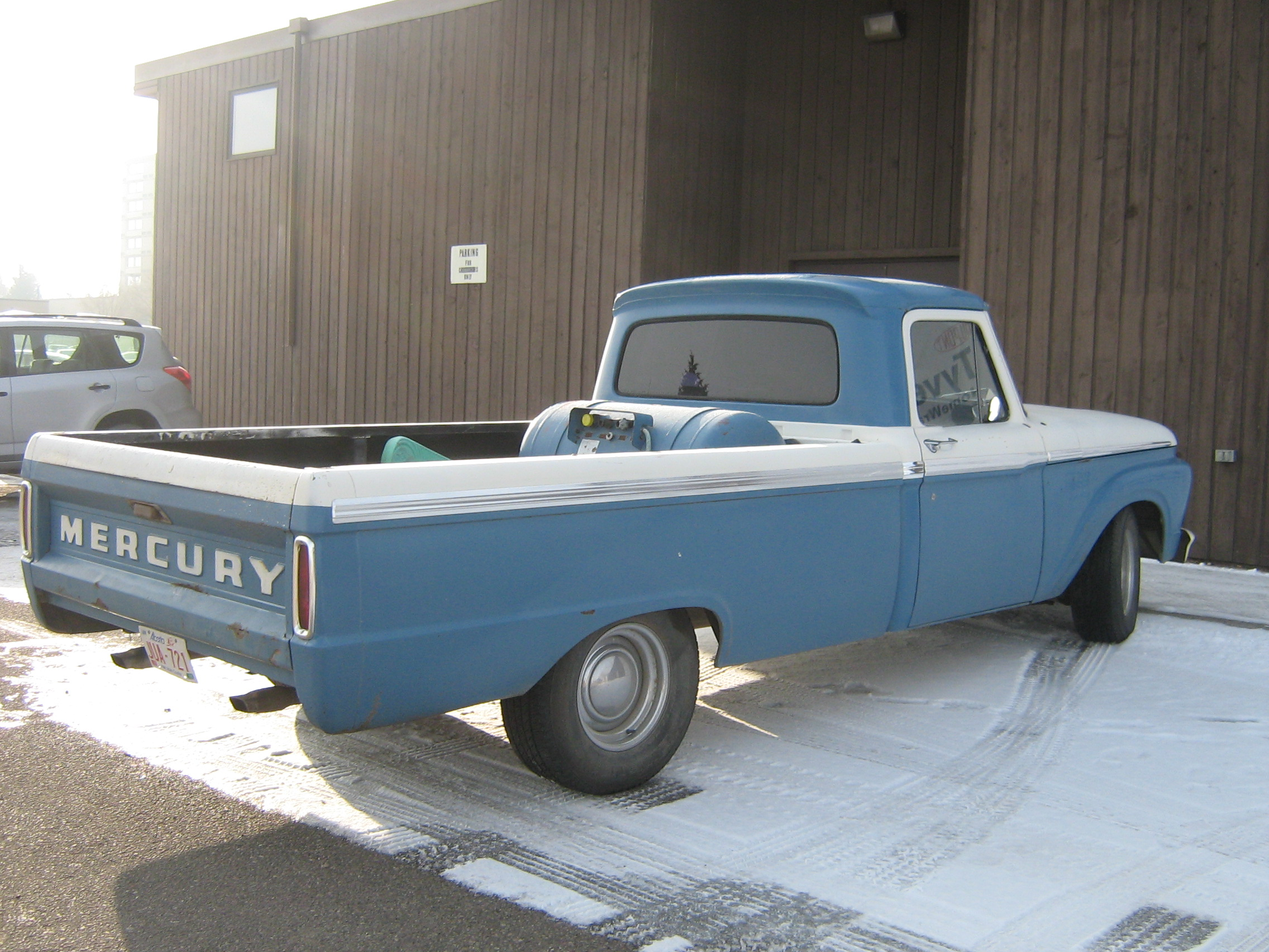 1966 Mercury Truck - looks to be on propane